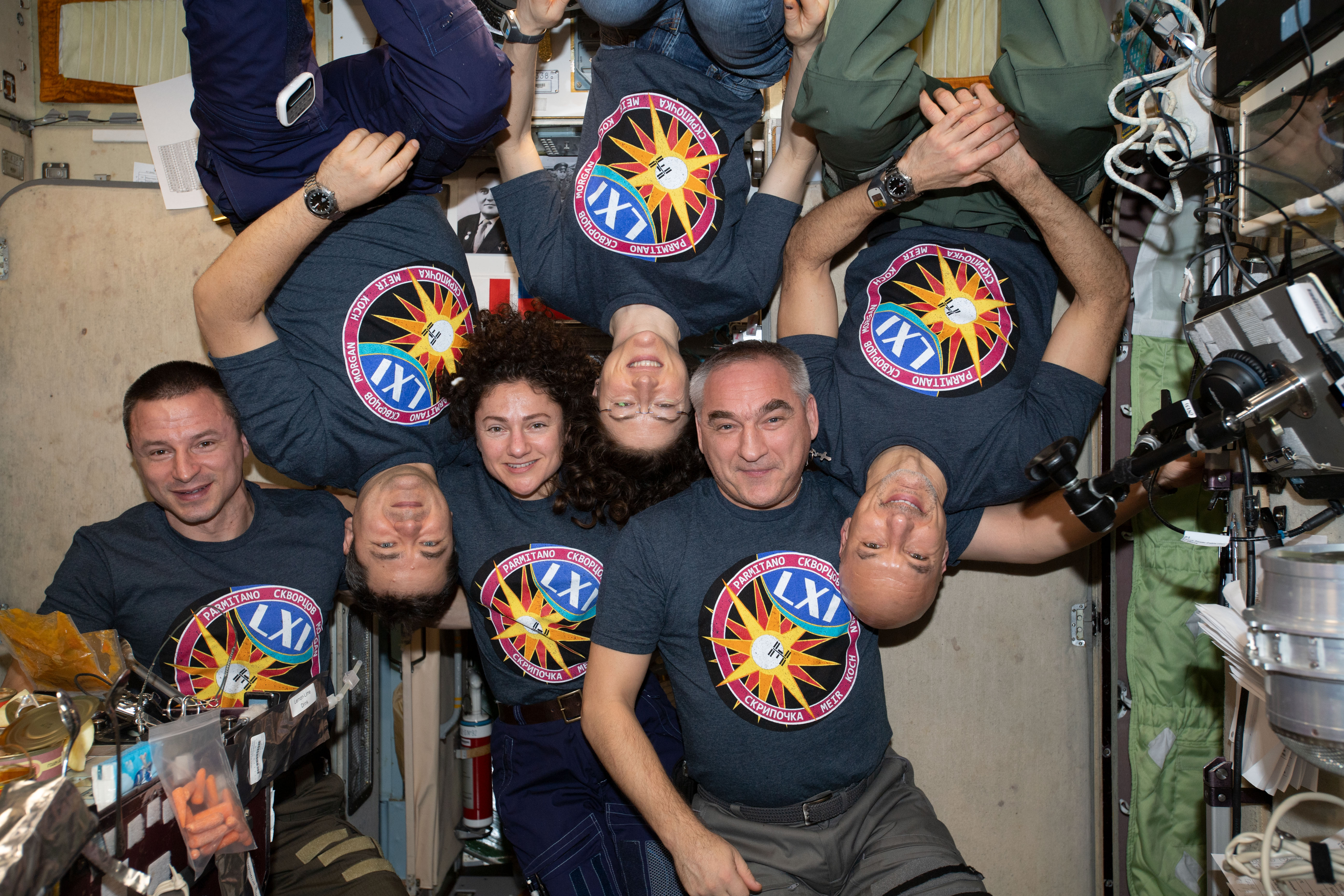 The six-member Expedition 61 crew, wearing t-shirts printed with their crew insignia, gathers for a playful portrait inside the International Space Station's Zvezda service module. From left are, Flight Engineers Andrew Morgan, Oleg Skripochka, Jessica Meir, Christina Koch and Alexander Skvortsov and Commander Luca Parmitano.